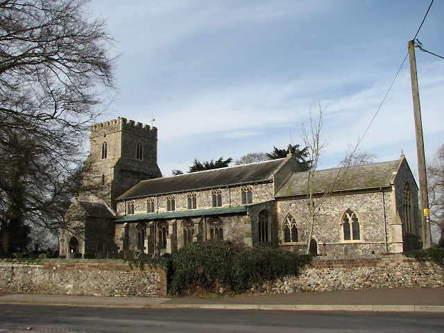 The church of St Nicholas